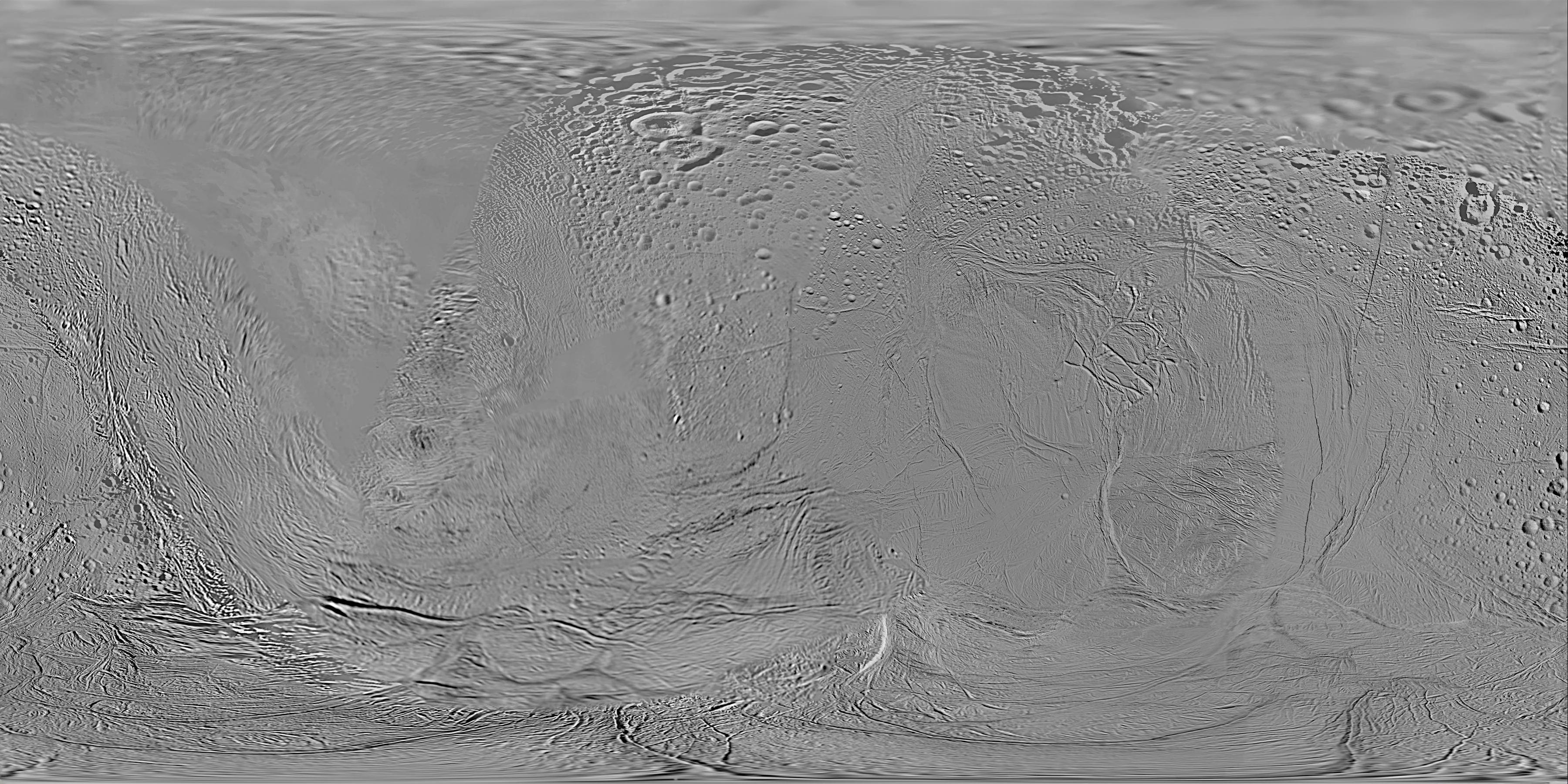 This global map of Saturn's moon Enceladus was created using images taken during Cassini spacecraft flybys, with Voyager images filling in the gaps in Cassini's coverage. The map is an equidistant (simple cylindrical) projection and has a scale of 440 meters (1,444 feet) per pixel at the equator. The mean radius of Enceladus used for projection of this map is 252 kilometers (157 miles). This mosaic map is an update to the version released in December 2006 (see PIA08342). The mosaic was shifted by 3.5 degrees to the west, compared to the previous version, to be consistent with the International Astronomical Union longitude definition for Enceladus.